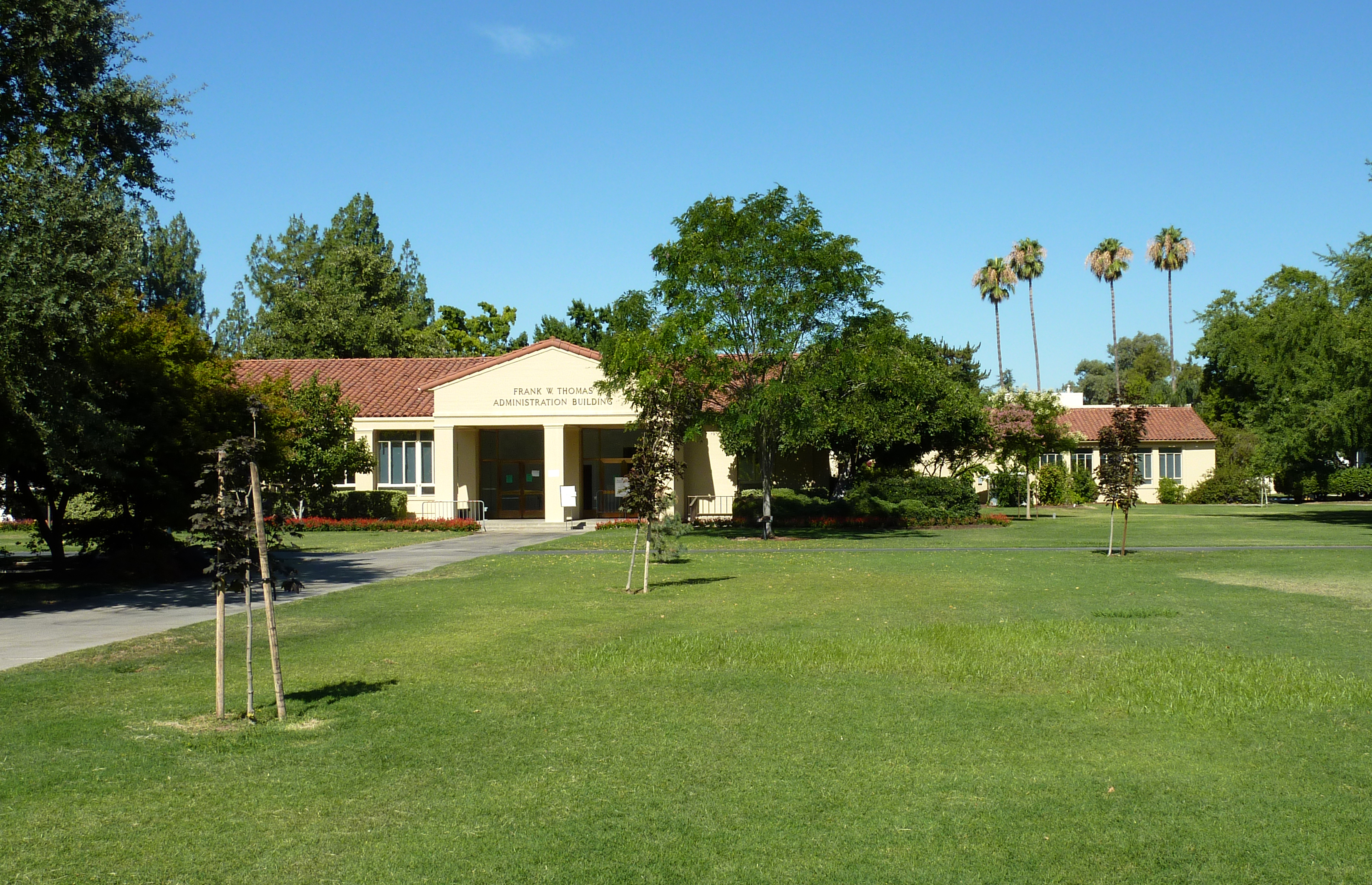 Frank W. Thomas Administration Building, Fresno State, Fresno, California, USA.